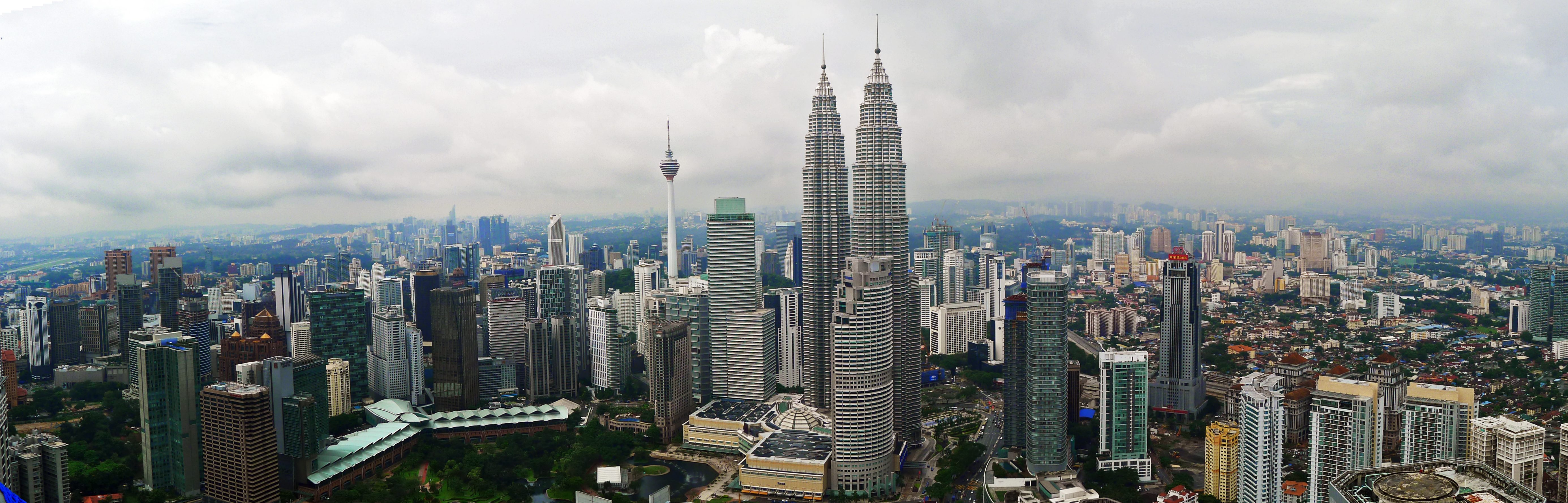 The skyline of downtown Kuala Lumpur on a rainy morning.